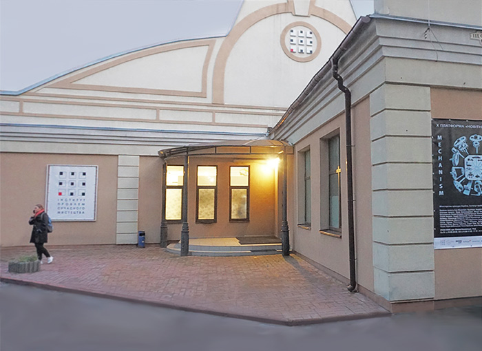 Modern Art Research Institute, Kyiv, Ukraine